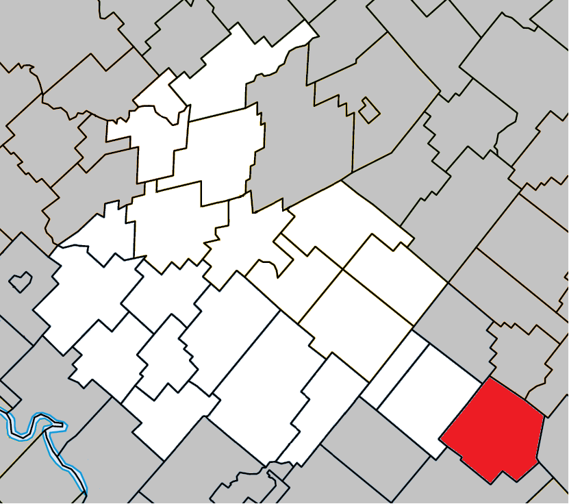 Location of Saints-Martyrs-Canadiens, Quebec within Arthabaska Regional County Municipality.